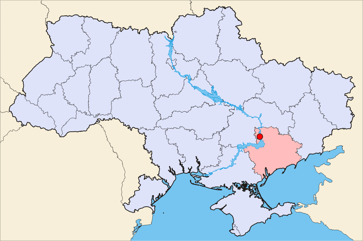 Description = Zaporizhia geographical position Source = own work, Skluesener Date = 15.01.2006 Author = Skluesener Credits = Colours chosen according to a map of steschke